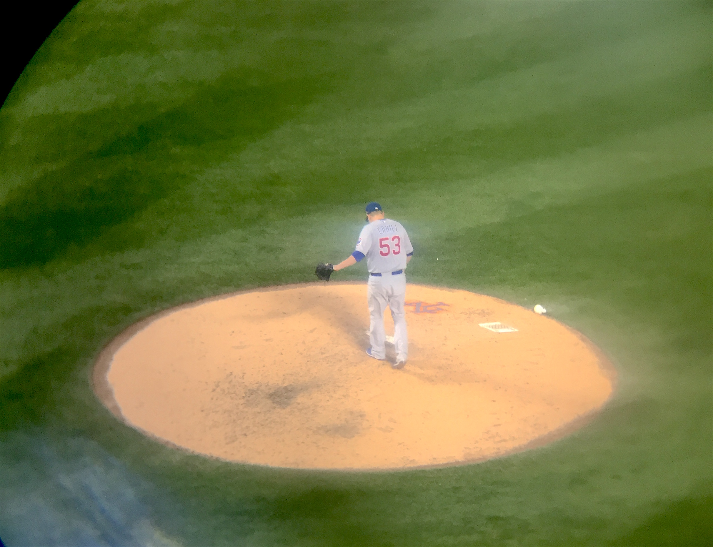 Trevor Cahill of the Chicago Cubs pitches against the New York Mets in the 2015 National League Championship Series